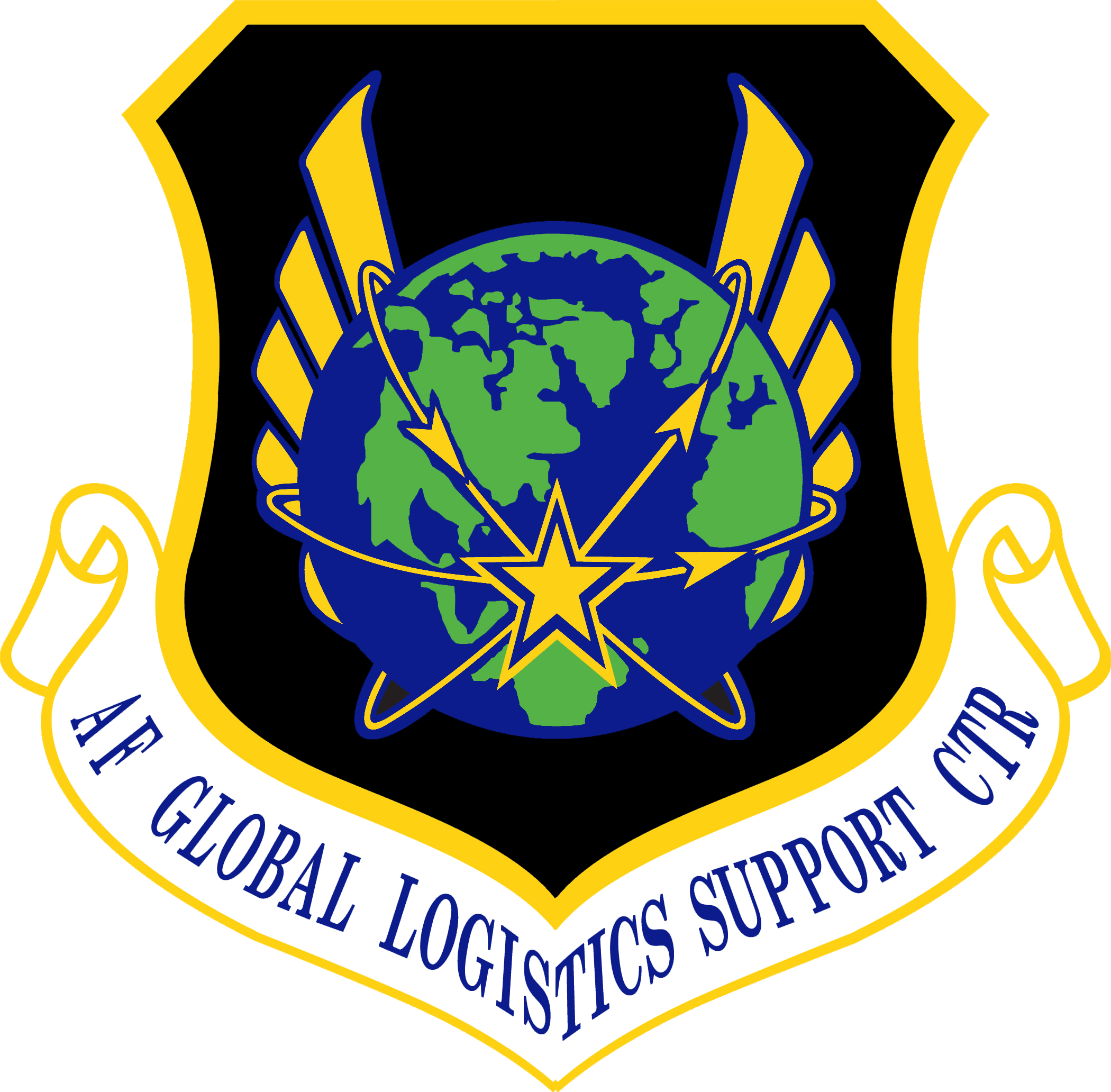 United States Air Force Global Logistics Support Agency emblem.